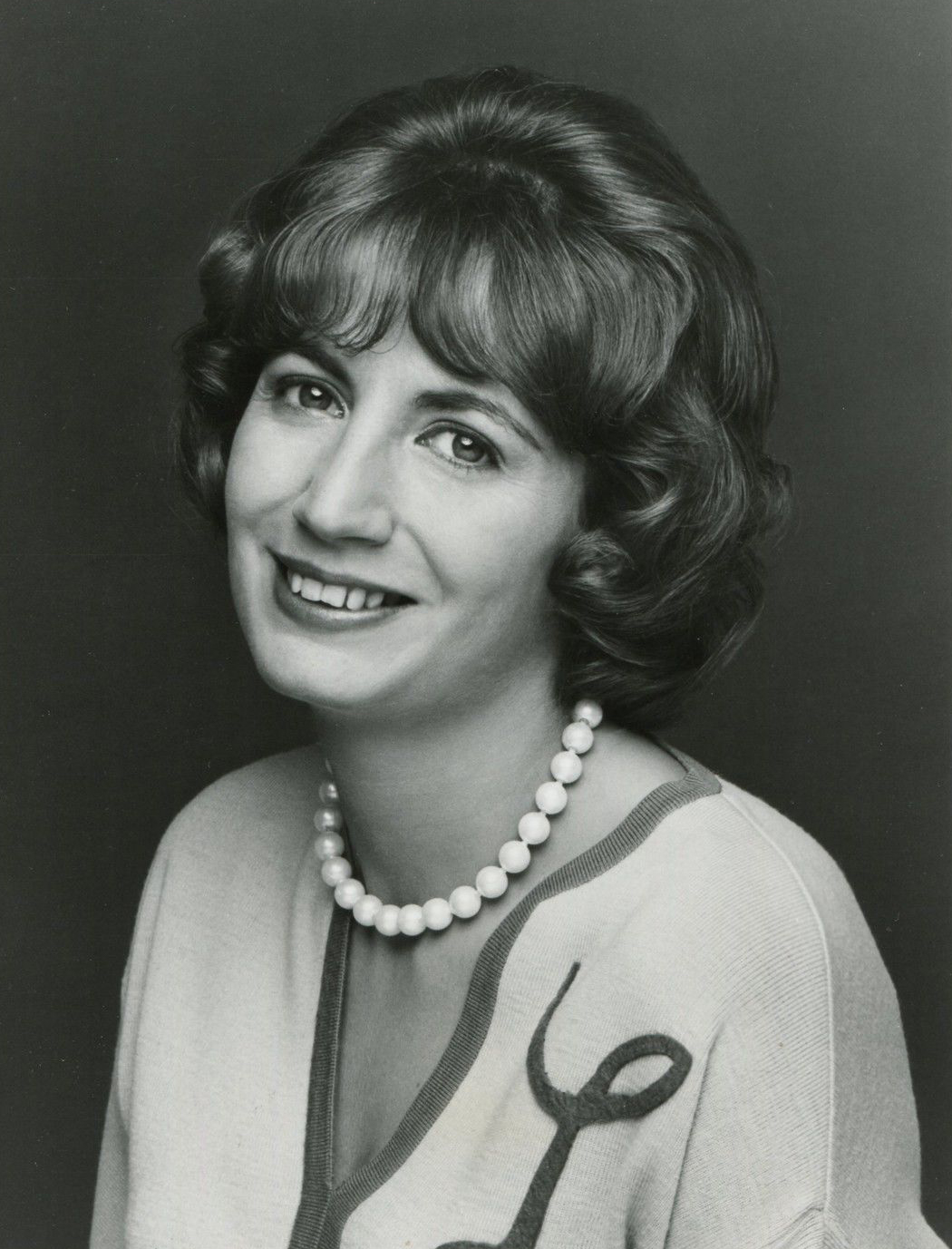 Penny Marshall publicity photo for Laverne & Shirley, dated January 13, 1976